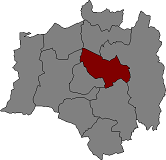 Location of Fontcoberta in Pla de l'Estany